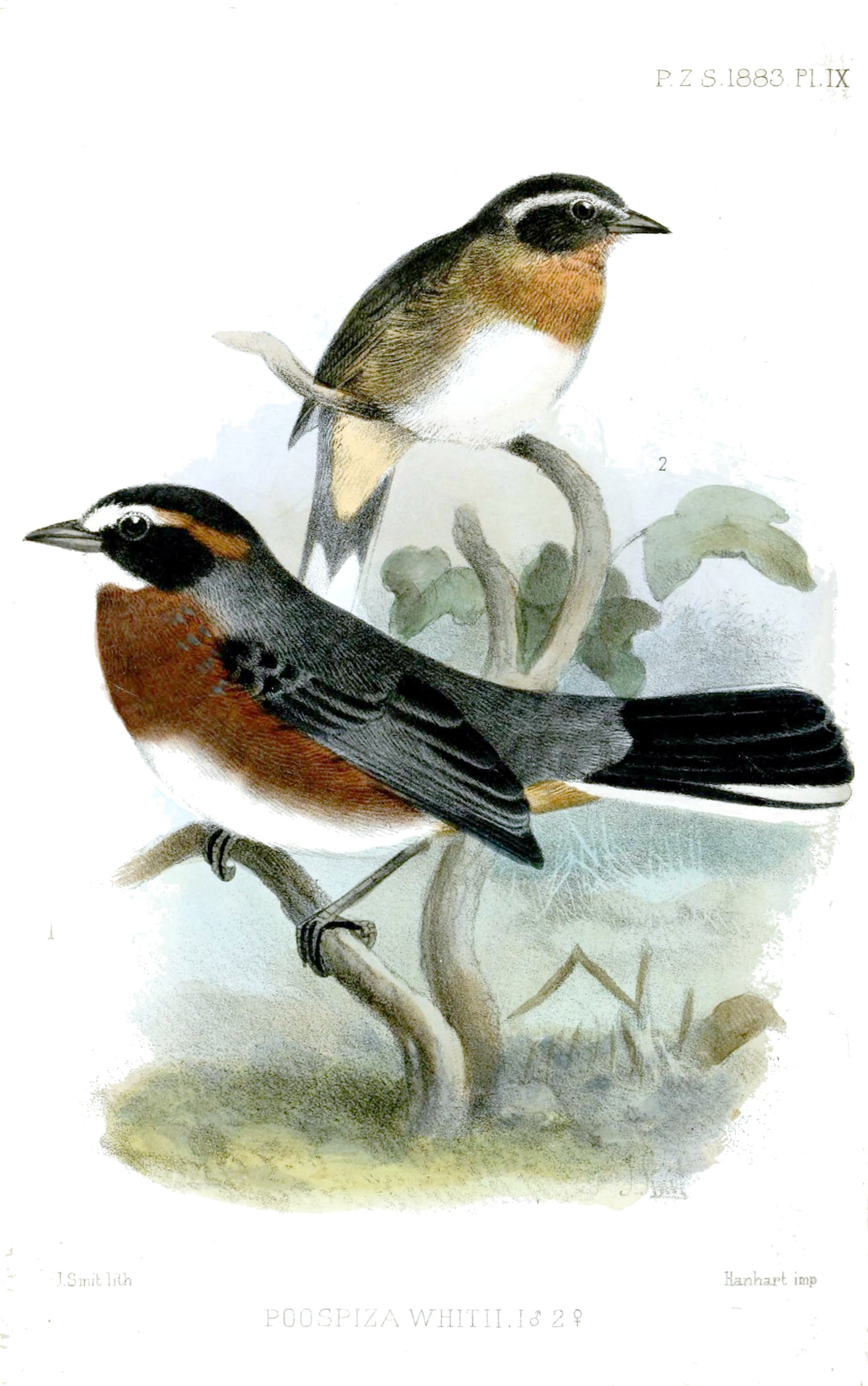 Black-and-chestnut Warbling-finch, female (above) and male (below)